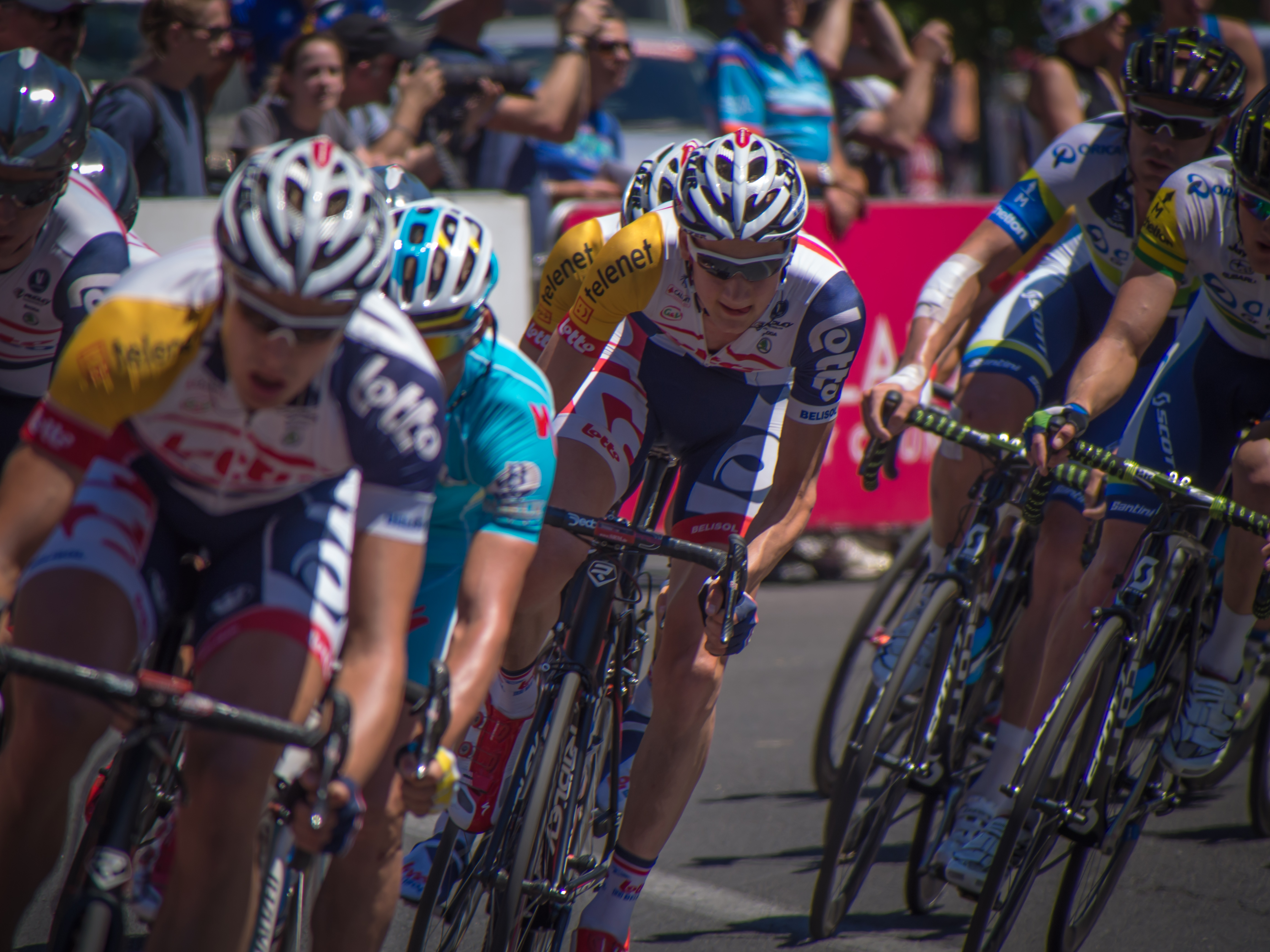 Tim Wellens (centre) during the final stage of the 2013 Tour Down Under